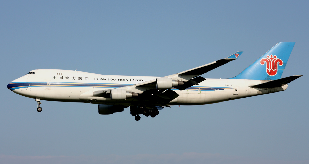 A Boeing 747-41BF(SCD) of China Southern Cargo landing in Amsterdam